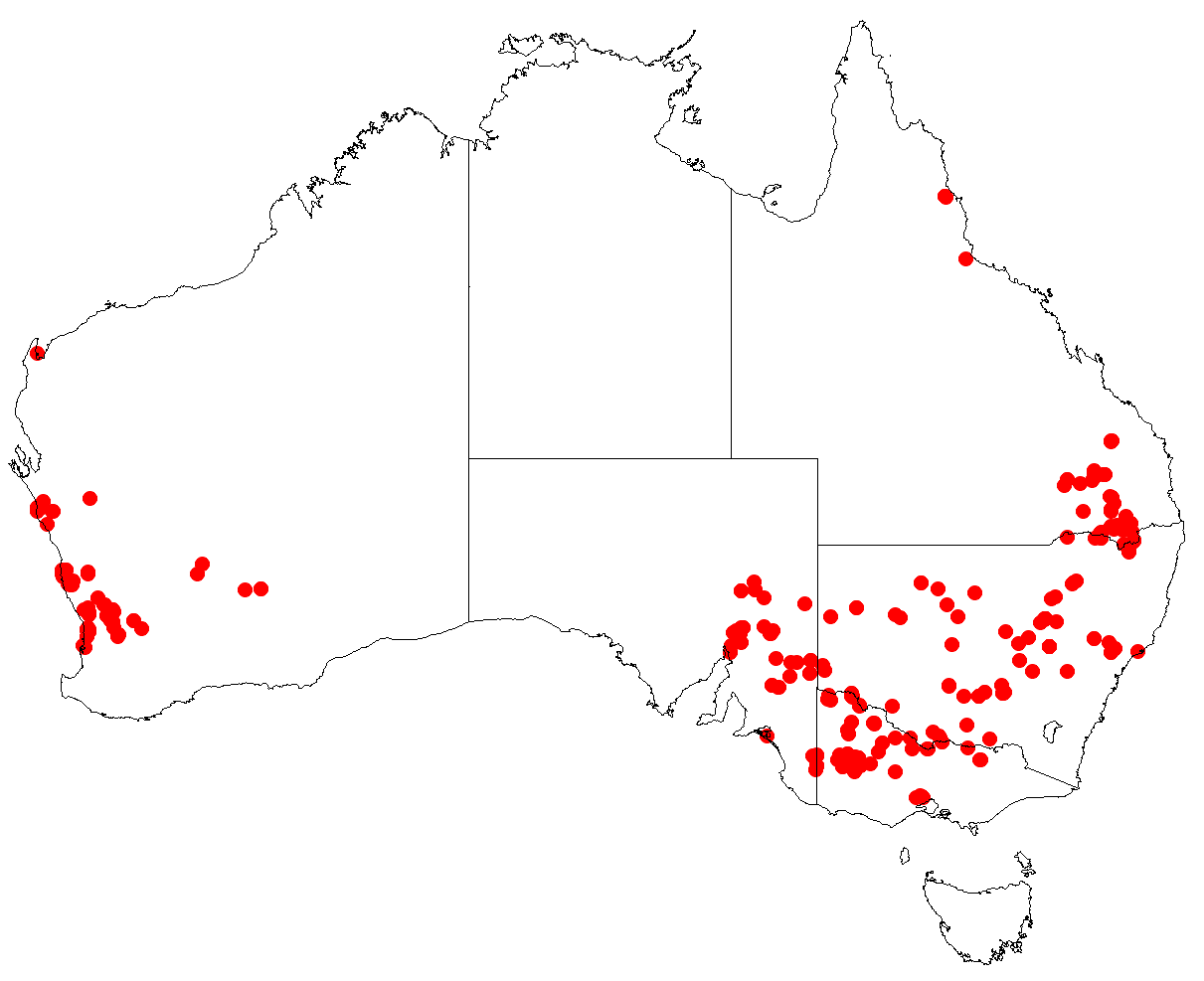 Australian distribution of Amyema linophylla based on download from Australasian Virtual Herbarium May 9, 2018